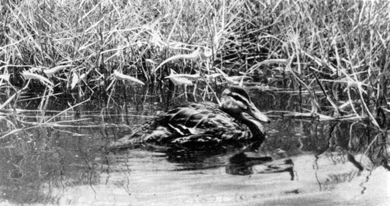 Mariana Mallard, a sick individual in freshwater lake on Tinitian Island. Joe T. Marshall Jr. (1949): The endemic avifauna of Saipan, Tinian, Guam and Palau. 51 (5): 200-221